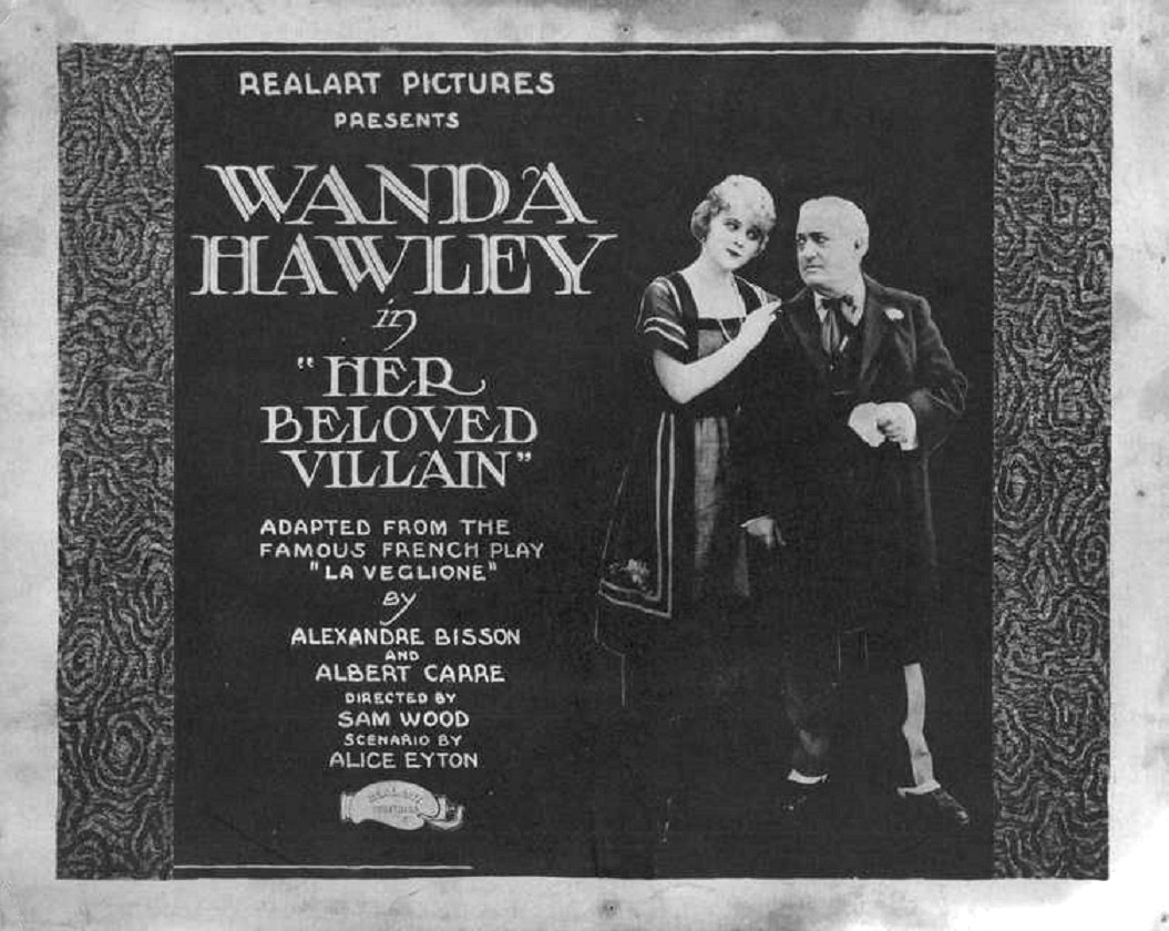 This is a lobby card for the 1920 American silent comedy film Her Beloved Villain.